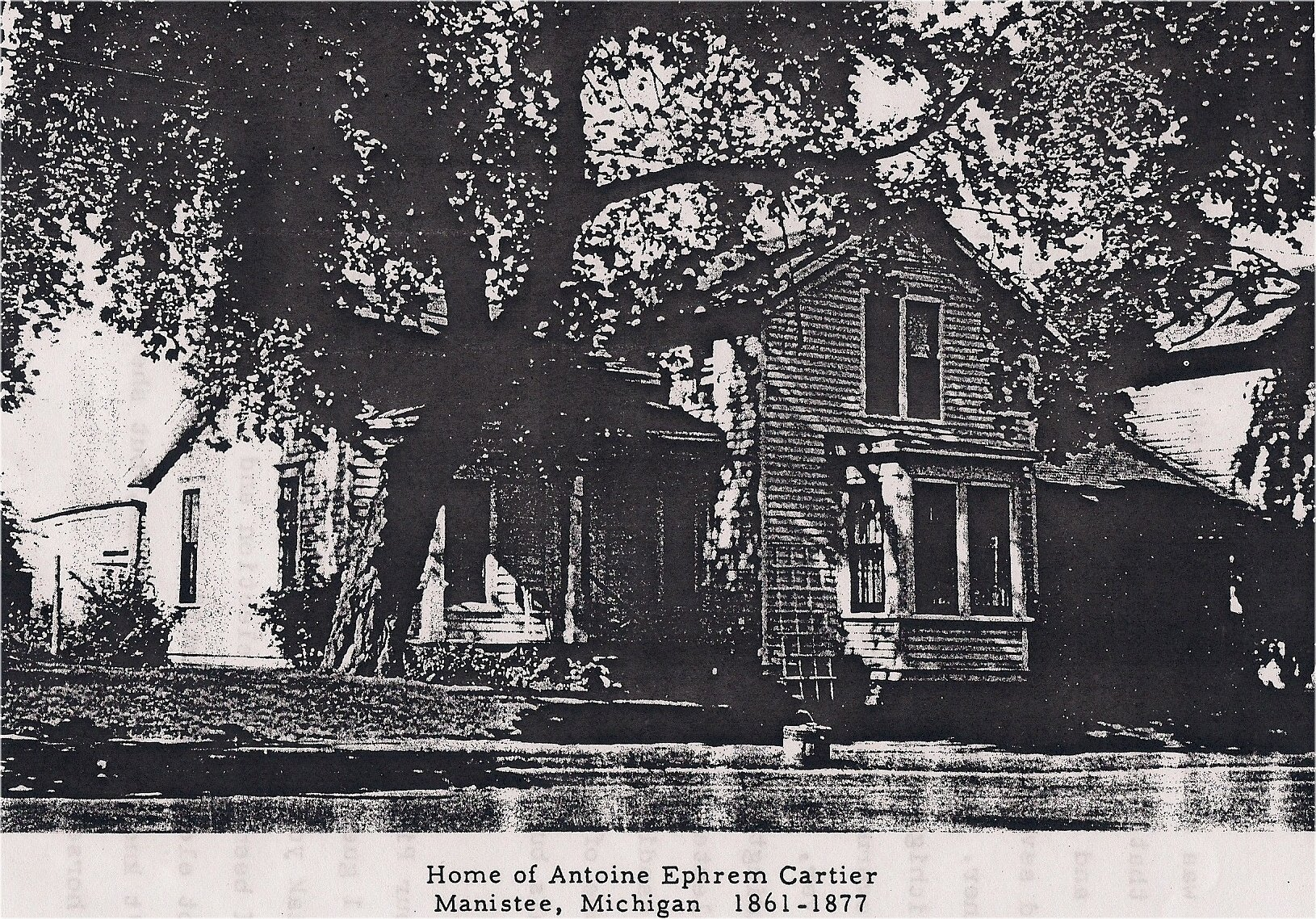 Home of Antoine Ephrem Cartier in Manistee, Michigan, from 1861 to 1877